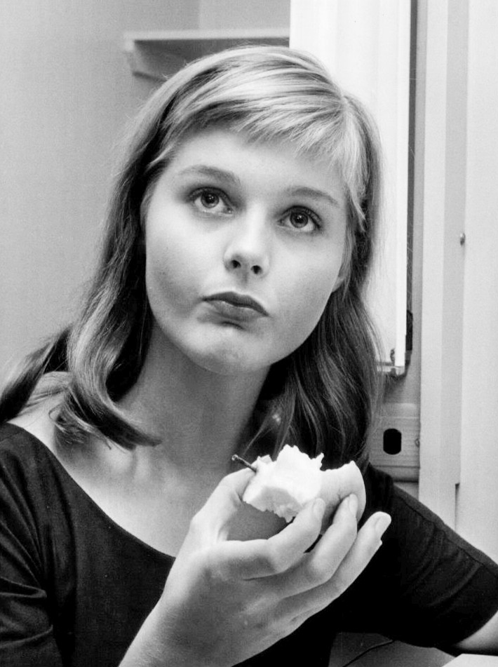 Photo of Carol Lynley.